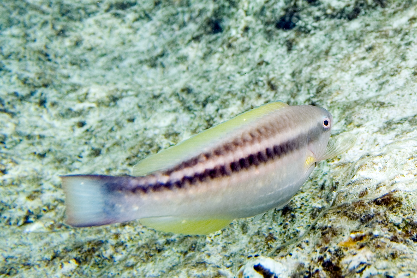 princess parrotfish Scarus taeniopterus initial phase